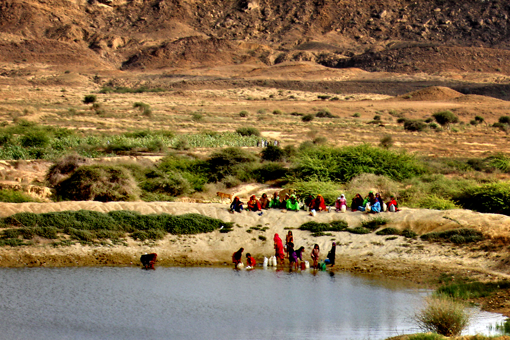 Women filling water from a reservoir on the way to Mubarak Village in Sindh.